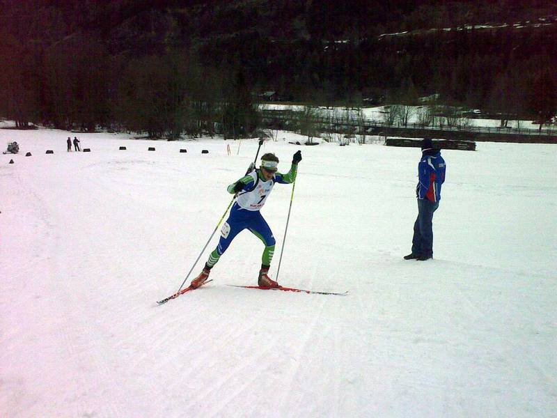 Peter Dokl at the 2010 Winter Military World Games